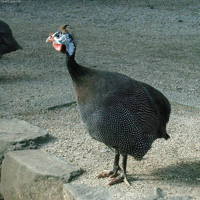 カブトホロホロチョウ Helmet Guineafowl Species Numida meleagris Familia Numididae Location Oji Zoo, KOBE, Japan Copyright OpenCage